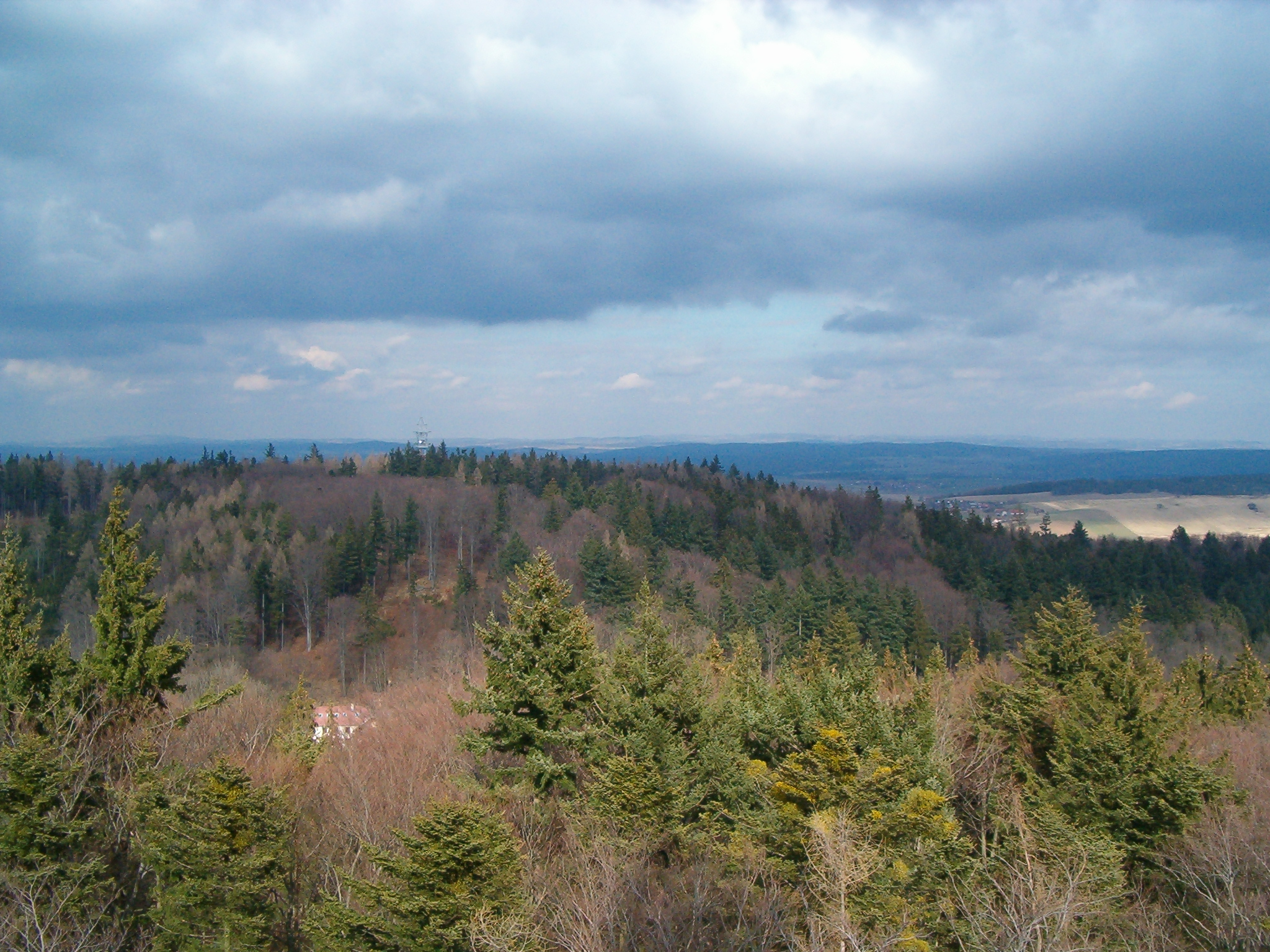 Písecké hory is forested mountain area near town Písek. By Chmee2´s family